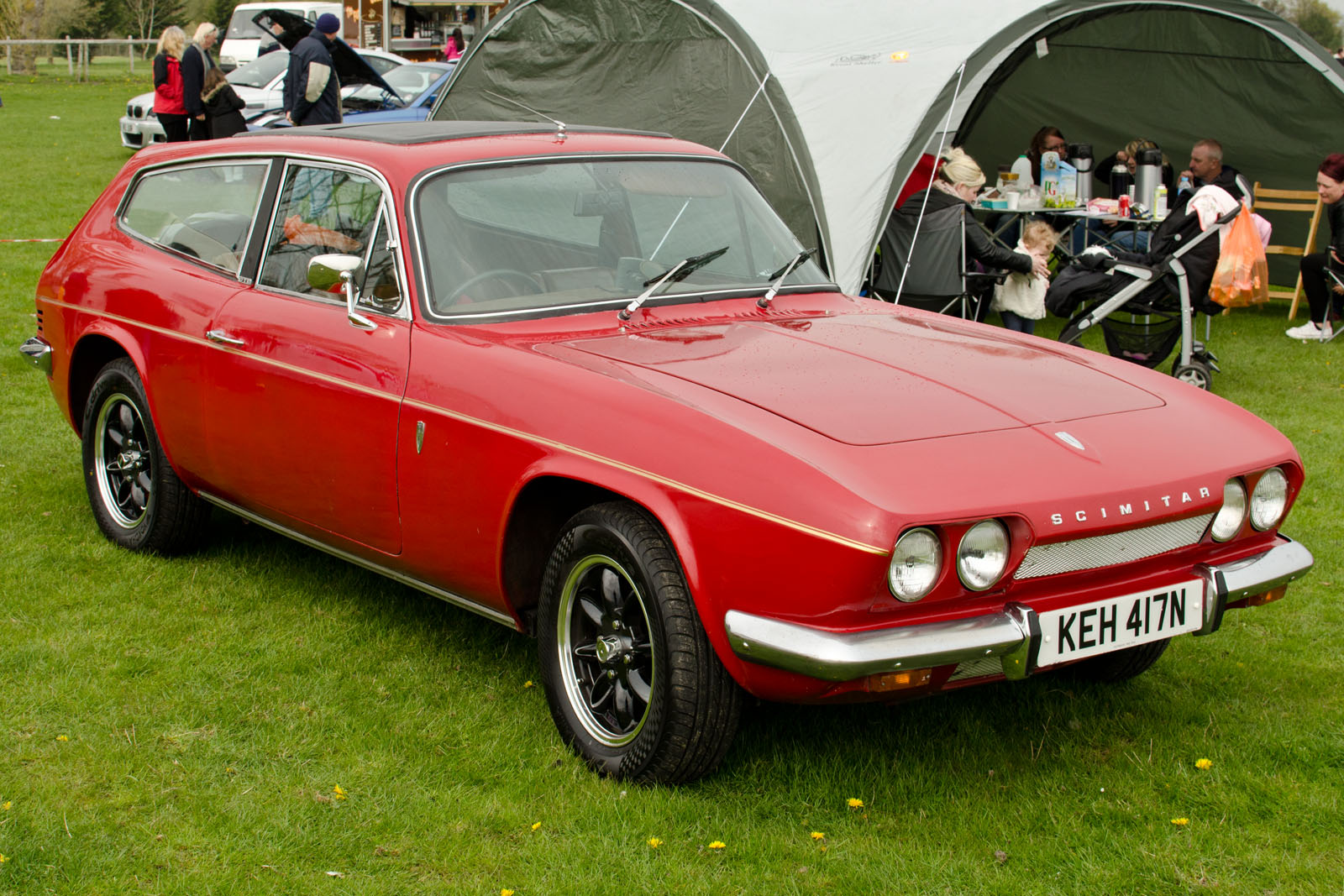 St Asaph Classic Car Show 20/04/2014